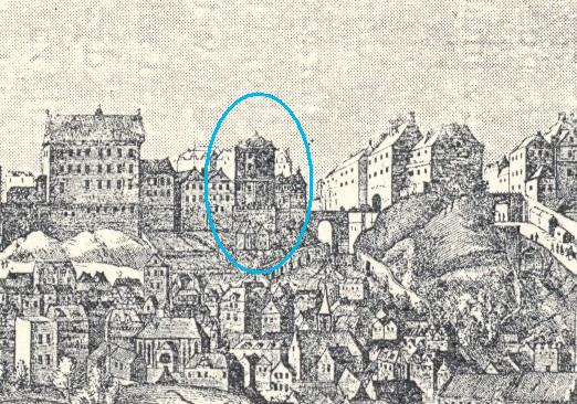 Chapel of Our Lady of Einsiedeln at the drawing of Hradčany and Lesser Quarter by Jiljí Sadelere from 1607.